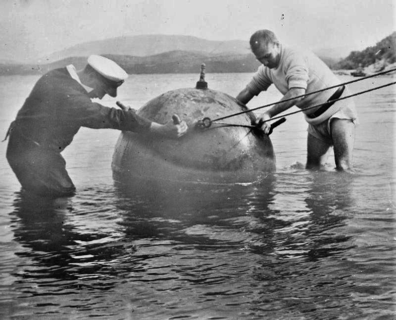 IWM caption : Petty Officers drag ashore a German GY mines swept in the Corfu Channel. These mines were German in origin but were laid by Albania shortly before they caused damage to HMS Saumarez and HMS Volage. Comment : see Corfu Channel Incident.